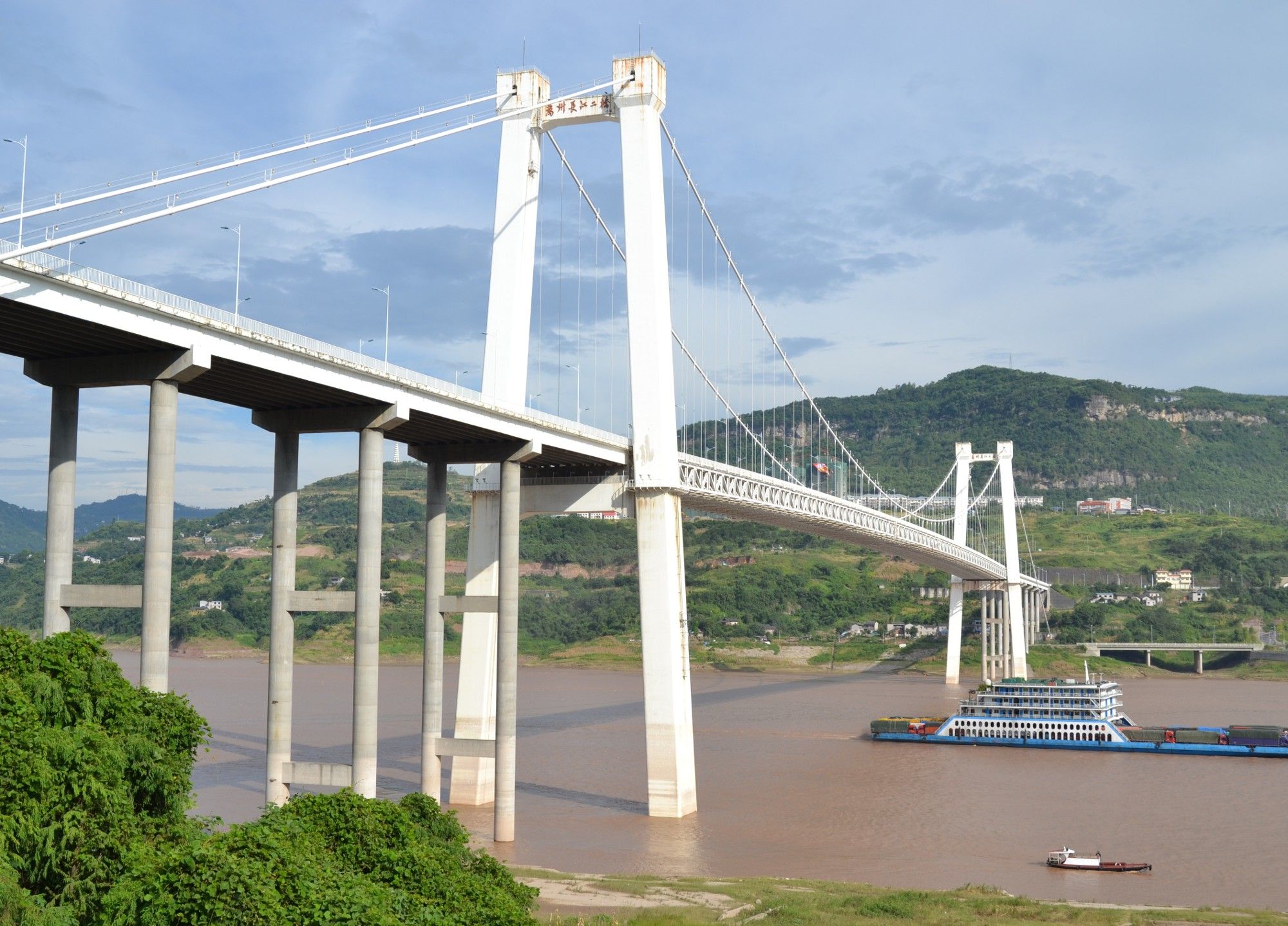 The Second Wanzhou Yangtze River Bridge in Chongqing Municipality, China